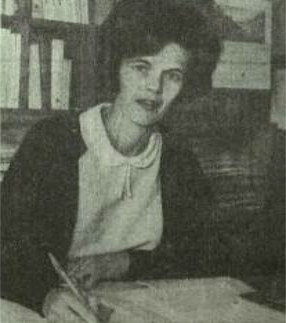 Alison Harcourt maths